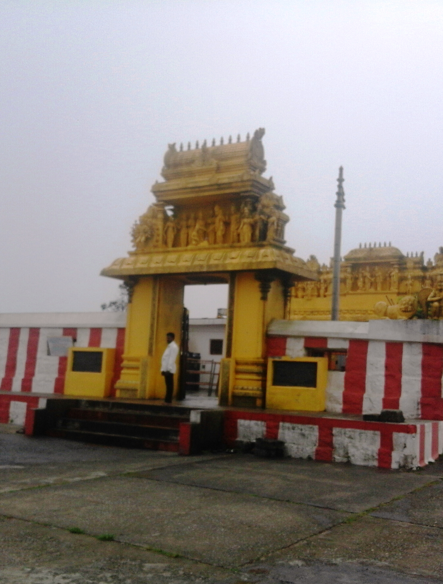 Gundllupet taluk, Chamarajanagar district, Karnataka state, India.